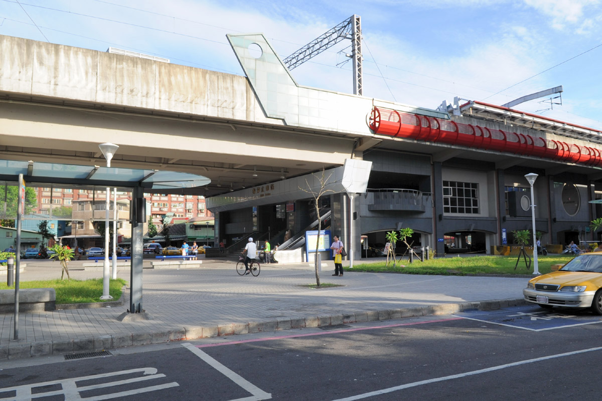 East Entrance of Sijhih Station, Taiwan Railway Administration.